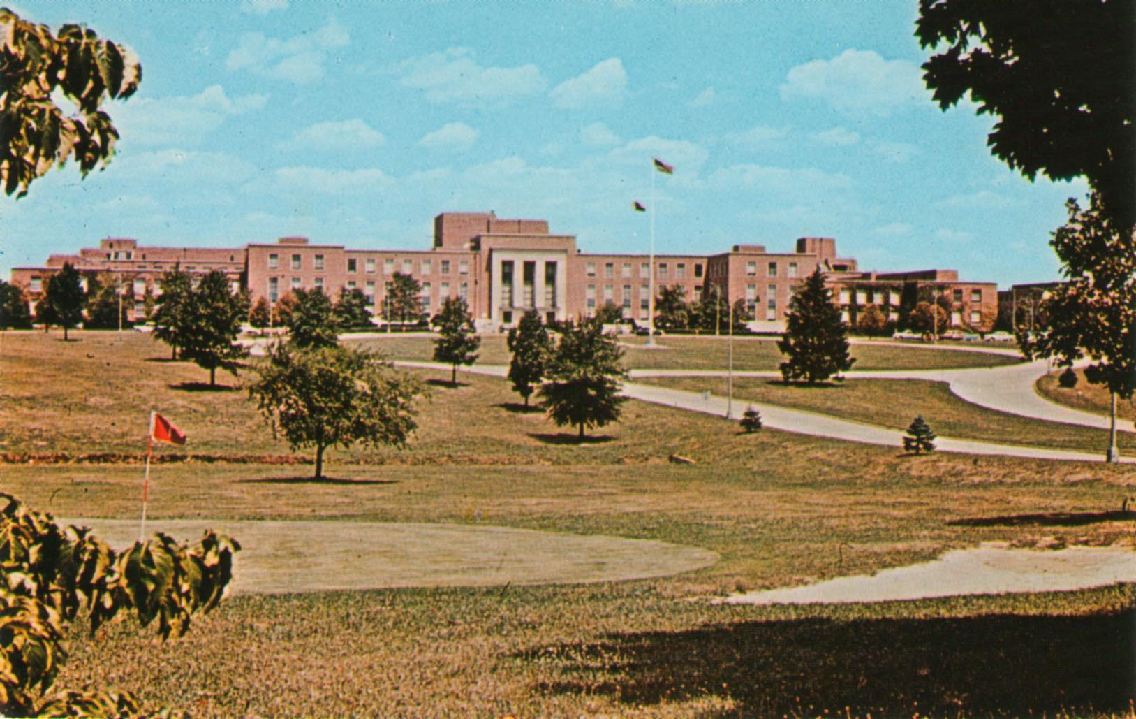 postcard caption: The U. S. Naval Ordnance Laboratory, White Oak, Maryland, is a major Research and Development Laboratory for the Navy. It is located 12 miles north of Washington DC in suburban Maryland. This postcard was printed by the Laboratory Employees Association and is made available through their courtesy.